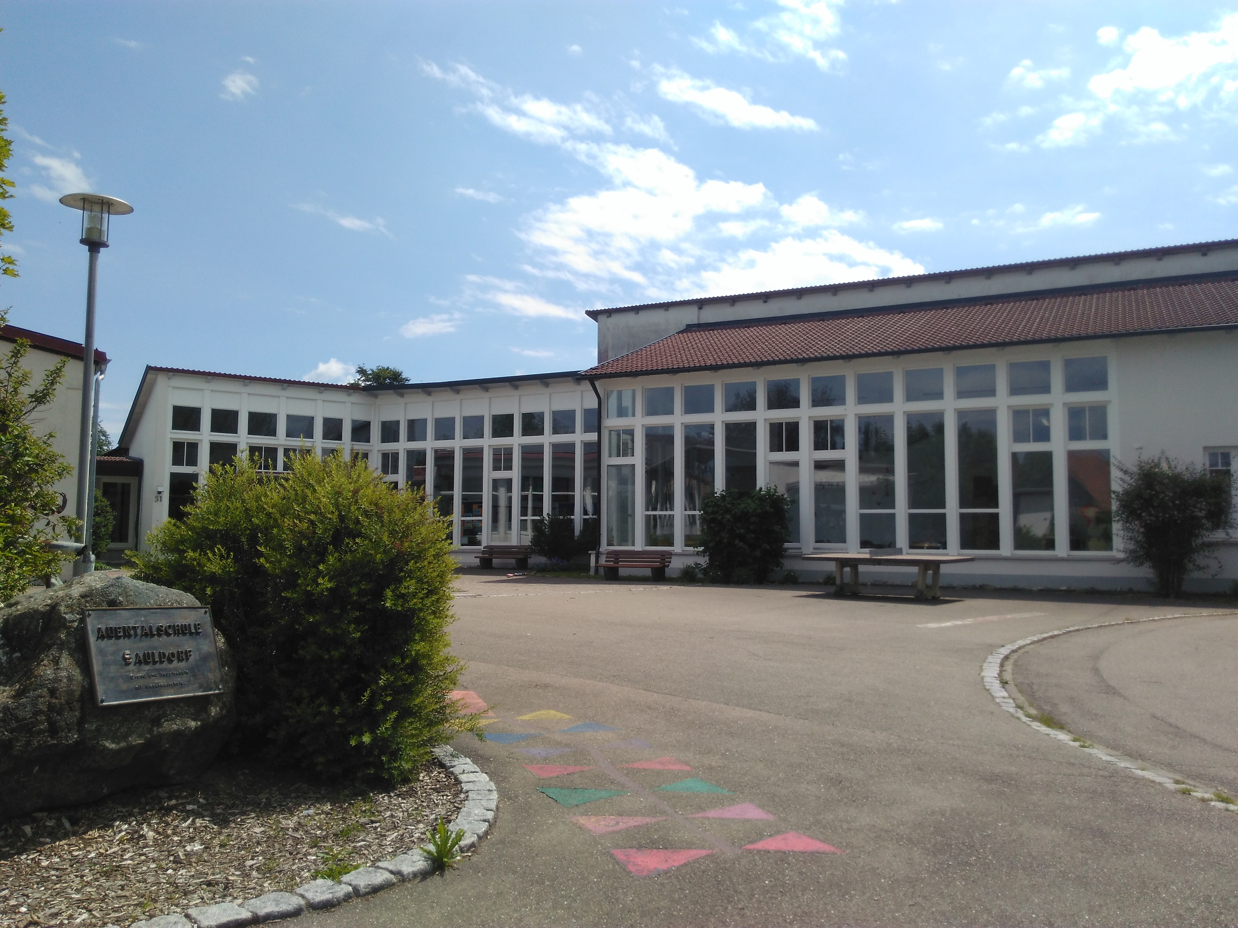 Auental school in Sauldorf, Germany